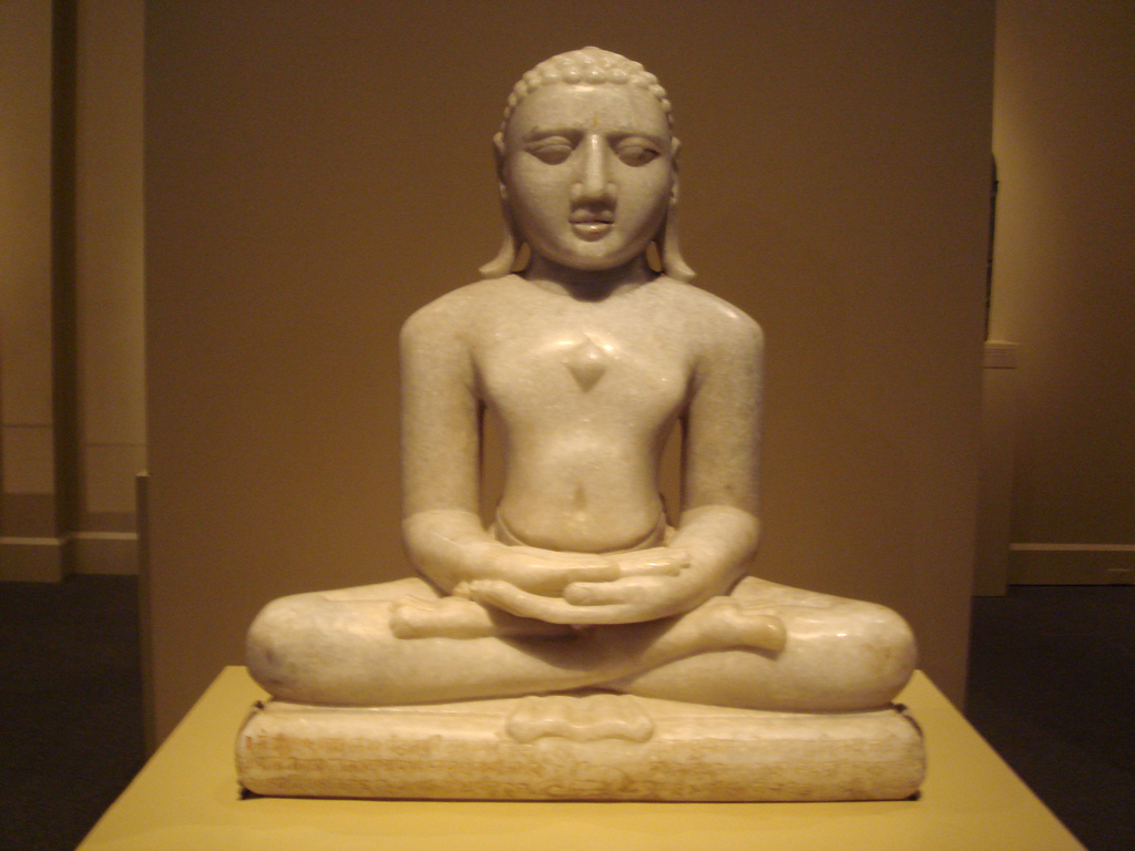 India, Gujarat, Vadodara (Baroda), South Asia Jina Rishabhanatha (Adinatha), 1612 (?) Sculpture; Stone, White marble with traces of pigment, 22 1/2 x 19 x 9 in. (57.15 x 48.26 x 22.86 cm) Gift of Drs. Peter and Caroline Koblenzer (AC1998.256.2) Wikipedia Loves Art at the Los Angeles County Museum of Art This photo of item # AC1998.256.2 at the Los Angeles County Museum of Art was contributed under the team name "ARTiFACTS" as part of the Wikipedia Loves Art project in February 2009. Los Angeles County Museum of Art The original photograph on Flickr was taken by sisleyceli—please add a comment to the original Flickr page whenever a use has been made on Wikipedia or another project. Project galleries on Flickr: this institution, this team